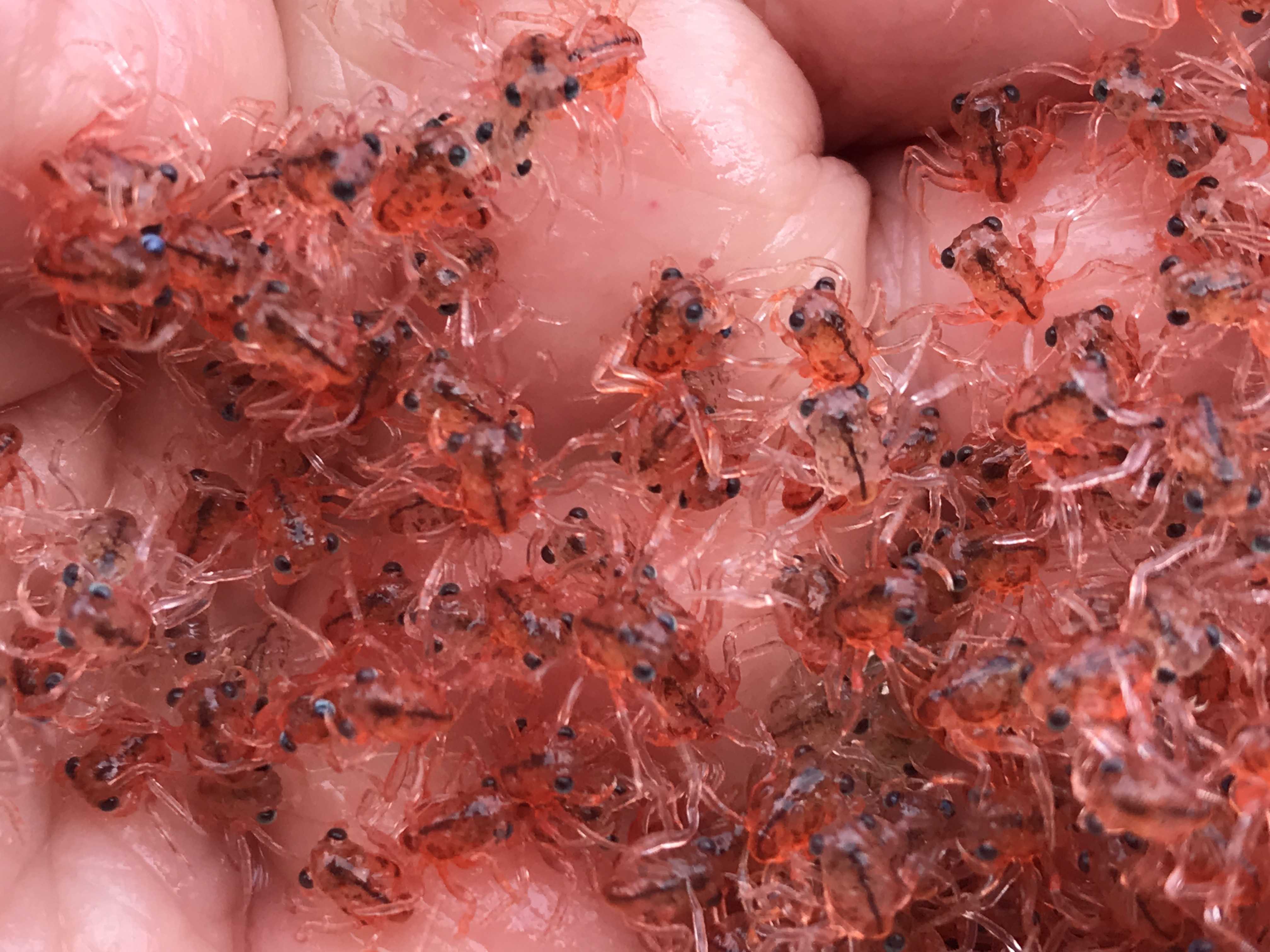 Christmas Island Indian Ocean Red Crab Megalope stage